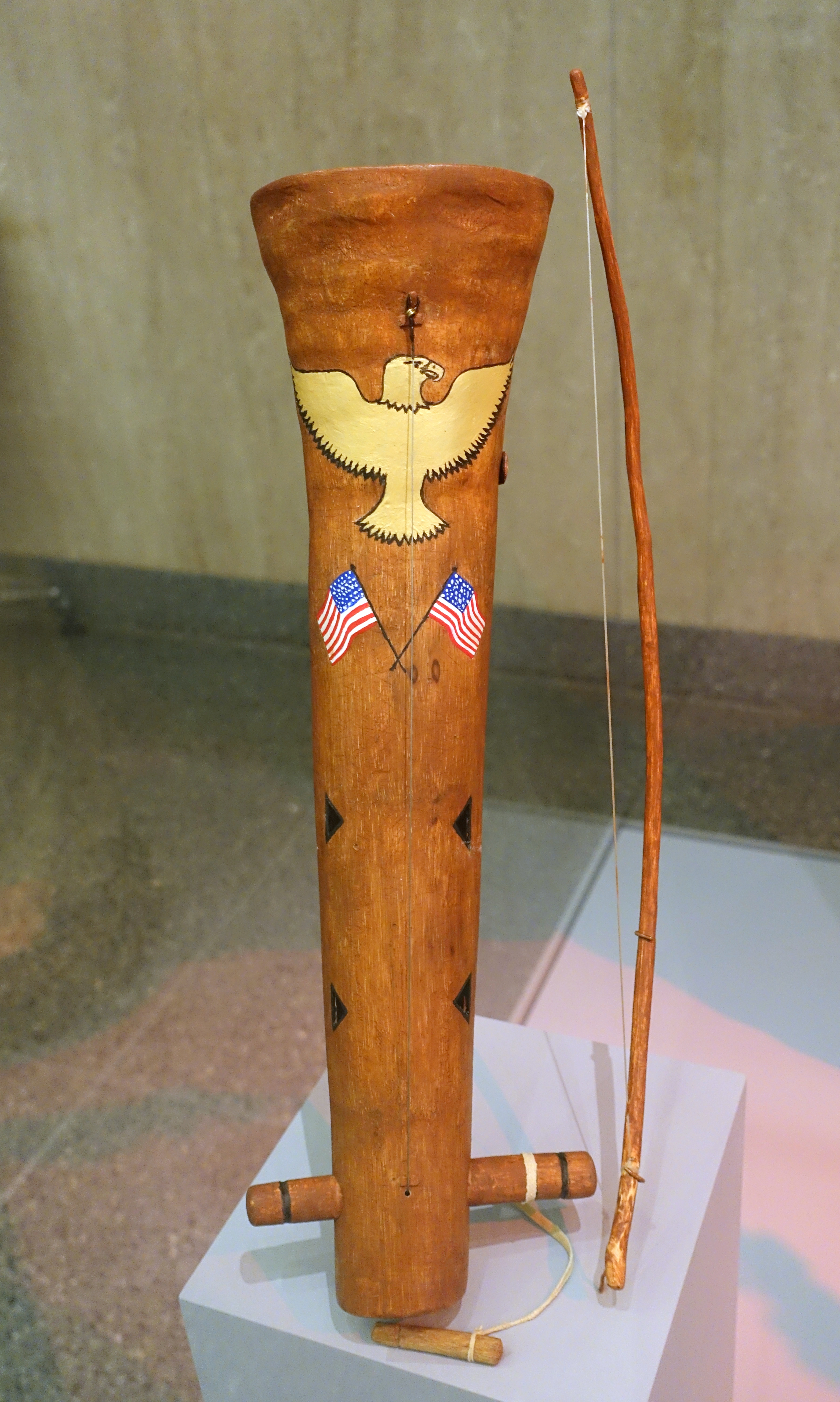 Apache violin made 1989 by Chesley Goseyun Wilson, San Carlos Apache Indian Reservation, Arizona. Exhibit in the National Museum of American History, Washington, DC, USA.